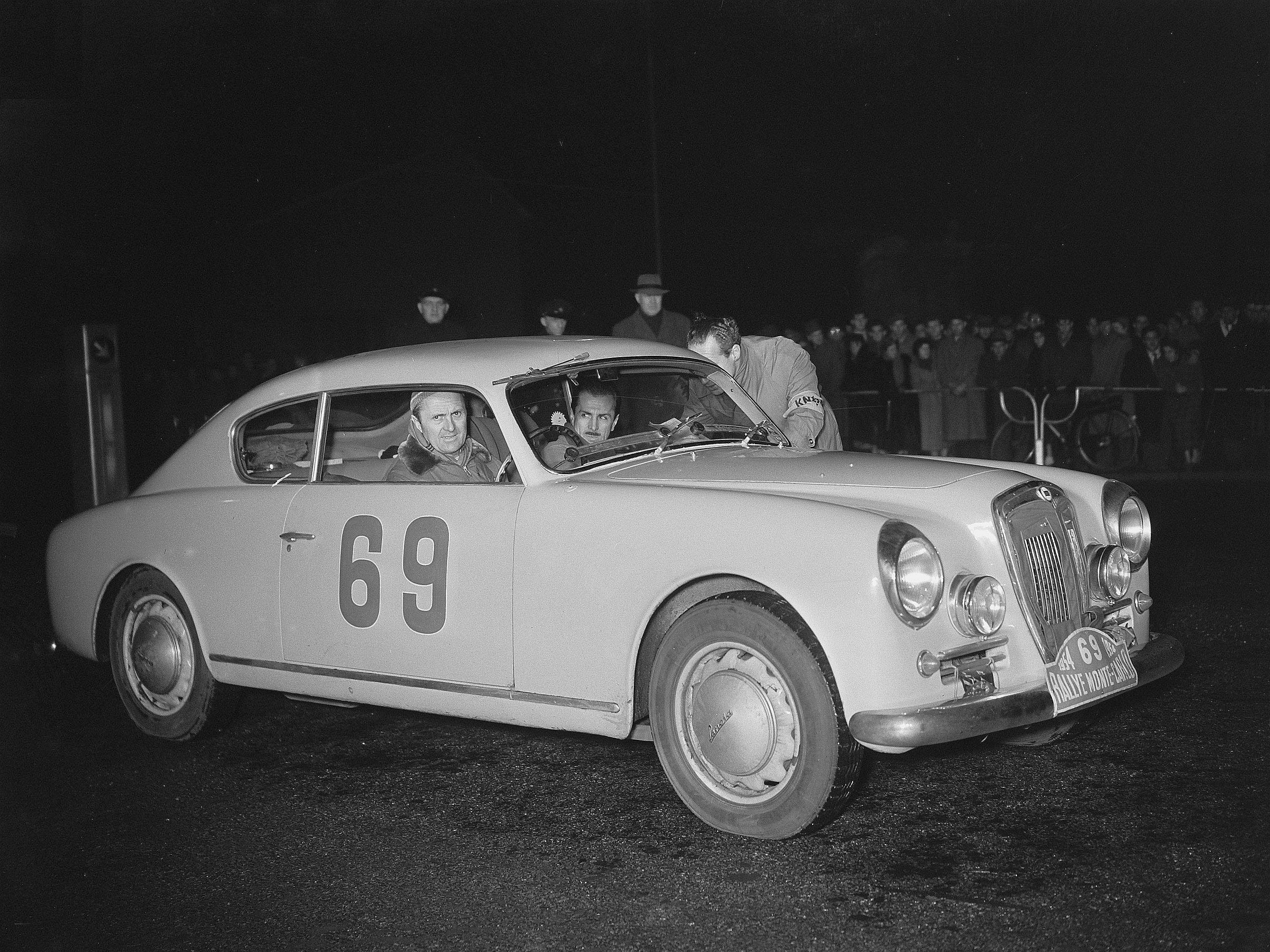 Entry #69 (and the winner) in the 1954 Rallye Monte Carlo was a Lancia Aurelia B20, entered by Louis Chiron (driver, behind the wheel here, left in the picture) and co-driver Ciro Basadonna (watching Chiron).[1]